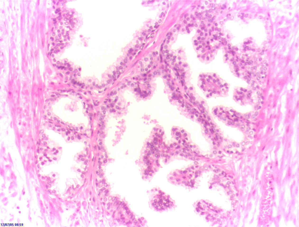 Microsopic view (Hematoxilin & Eosin, 100x) of normal tissue from the human prostate. Normal glands and fibromuscolar stroma is visible.